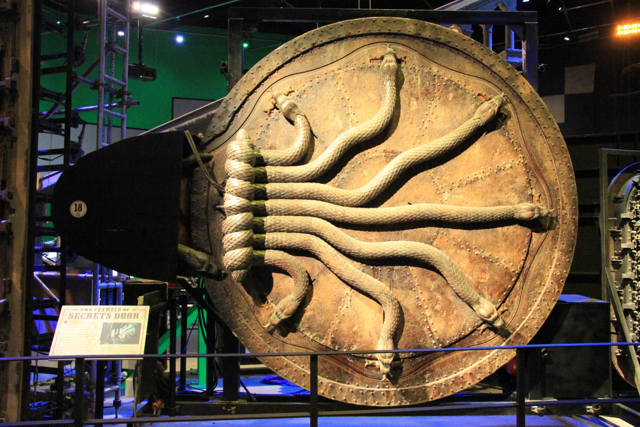 Warner Bros. Studio Tour London: The Making of Harry Potter.